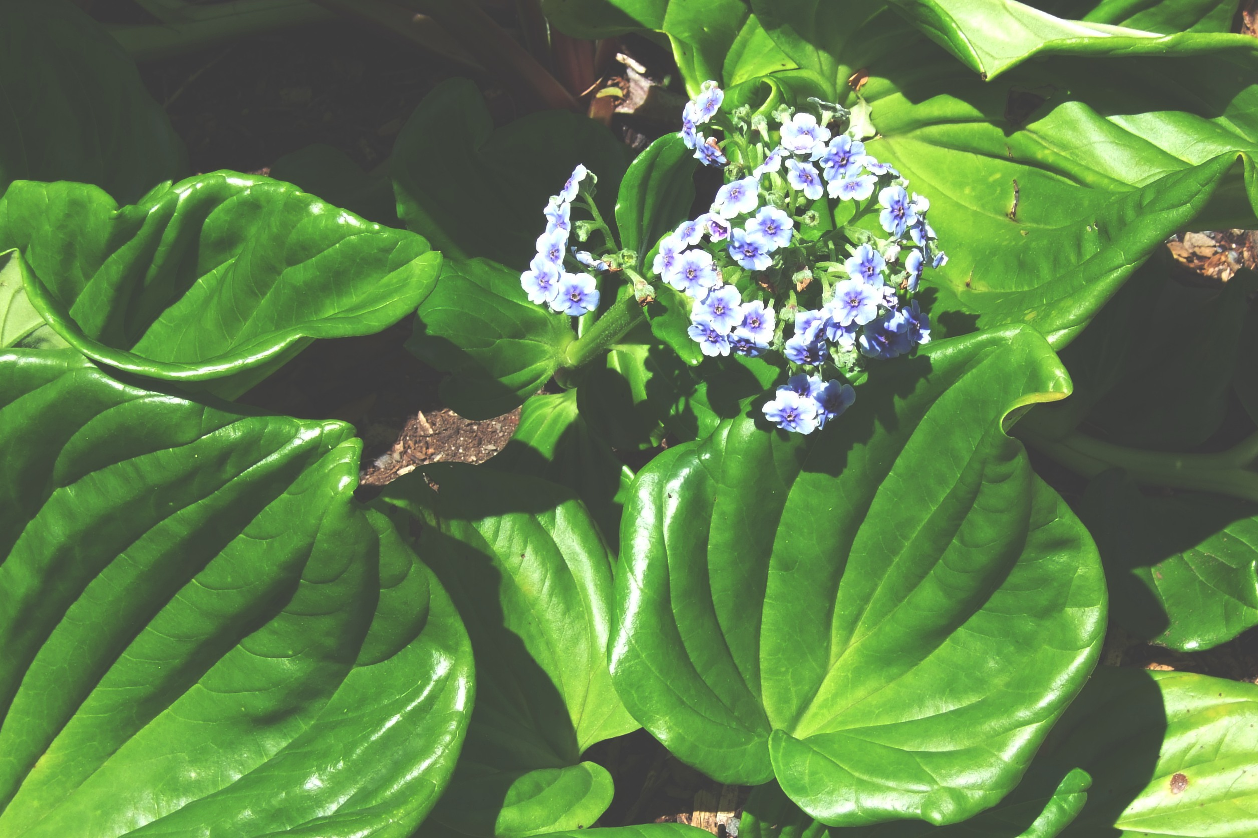 Fabulous fleshy leaved, blue-flowering, cold-loving plant from islands off New Zealand. Attribution: Photo by Virginia McMillan.